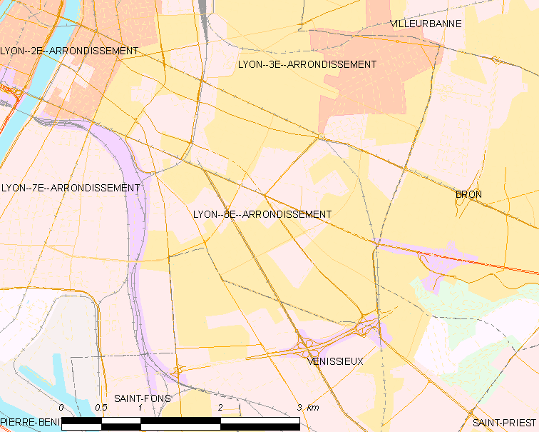 Map of French municipality